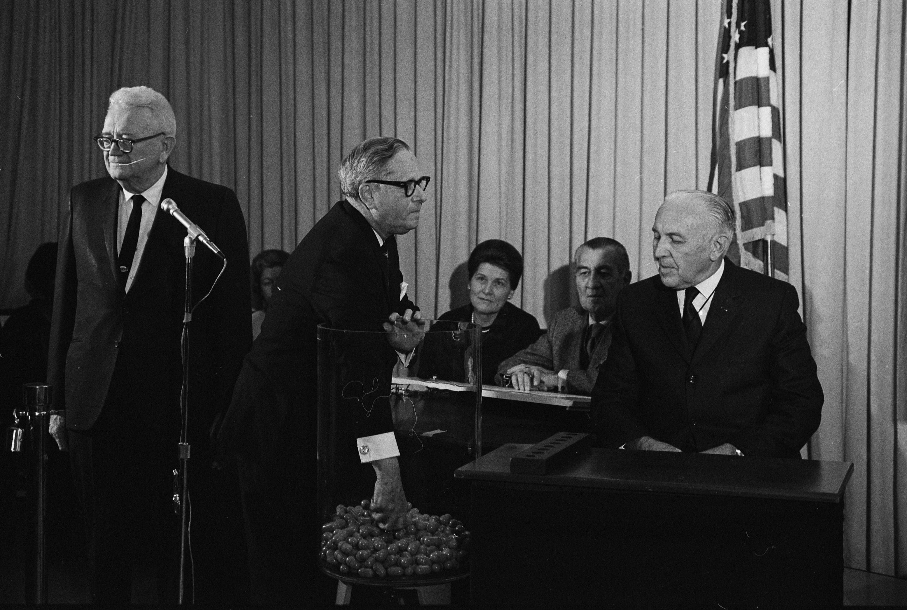 Congressman Alexander Pirnie (R-NY) drawing the first capsule for the Selective Service draft, Dec 1, 1969. This image was copied from [1], which credits the photo to "Selective Service System". I'm tentatively assuming that since the photo was created by a federal agency, it cannot by copyrighted. I'm going to post a message on copyvio to get clarification before I link an article to the image. Wile E. Heresiarch 17:54, 23 Mar 2004 (UTC) Here is the discussion from copyvio. As noted below I've linked to this image from draft lottery. Wile E. Heresiarch 15:55, 4 Apr 2004 (UTC) I'd like to put Image:1969 draft lottery photo.jpg in an article. I copied it from [11] which credits the photo to "Selective Service System". Since SS is a federal agency, I'm assuming that it cannot be copyrighted. However, before I put it in an article I'd like to get other peoples comments. OK to use this image or not? If not, I'll just get it erased. Thanks for your help, Wile E. Heresiarch 18:03, 23 Mar 2004 (UTC) You are correct. The Selective Service System does not have copyright for their photos. - Tεxτurε 18:23, 2 Apr 2004 (UTC) OK, thanks for your comment. I have gone ahead and linked draft lottery (1969) to the image. I believe WP is on firm ground here. Wile E. Heresiarch 15:52, 4 Apr 2004 (UTC)